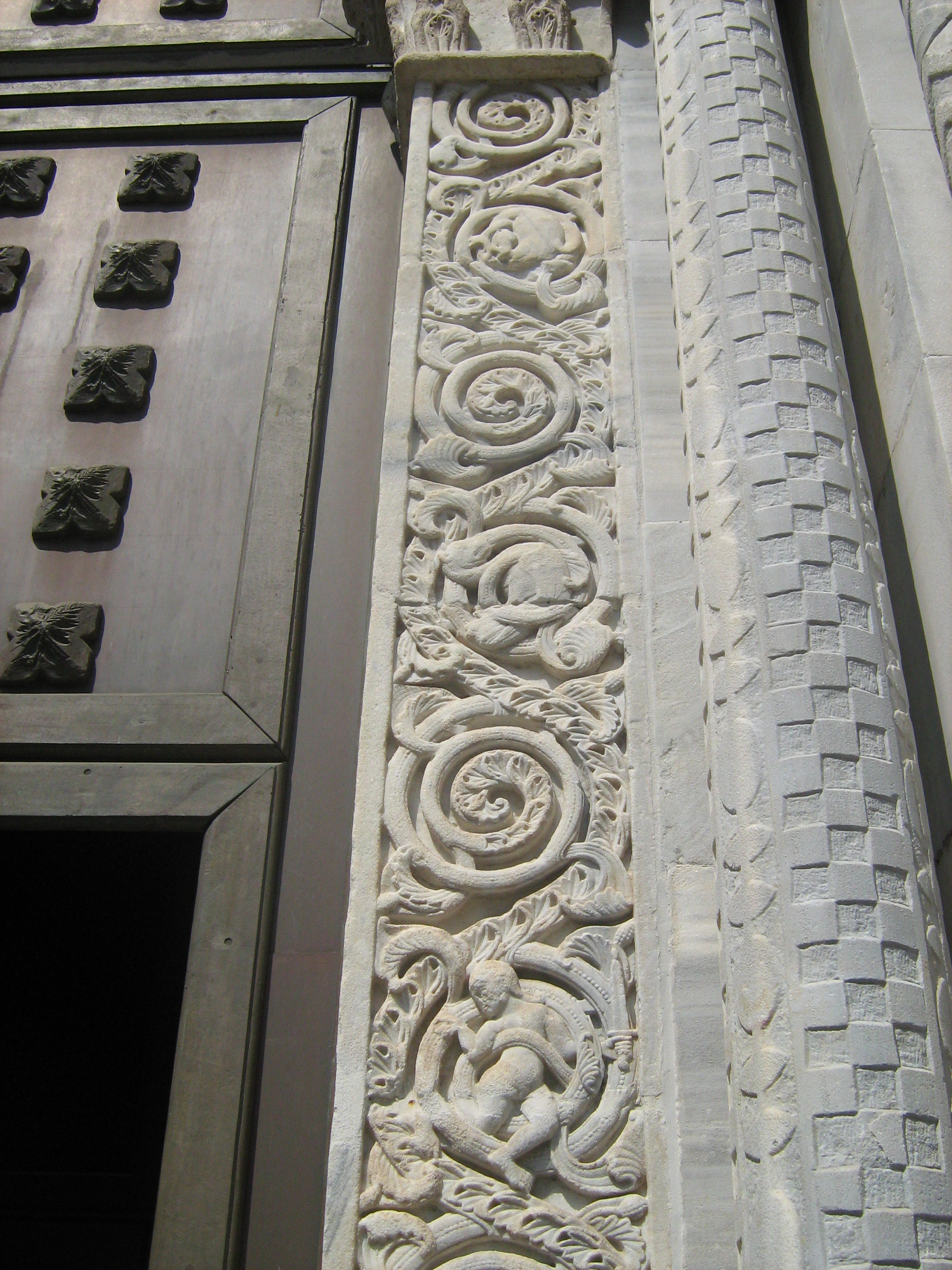 Church of St. Agathe at the Prison (Medieval Door- XIII century)